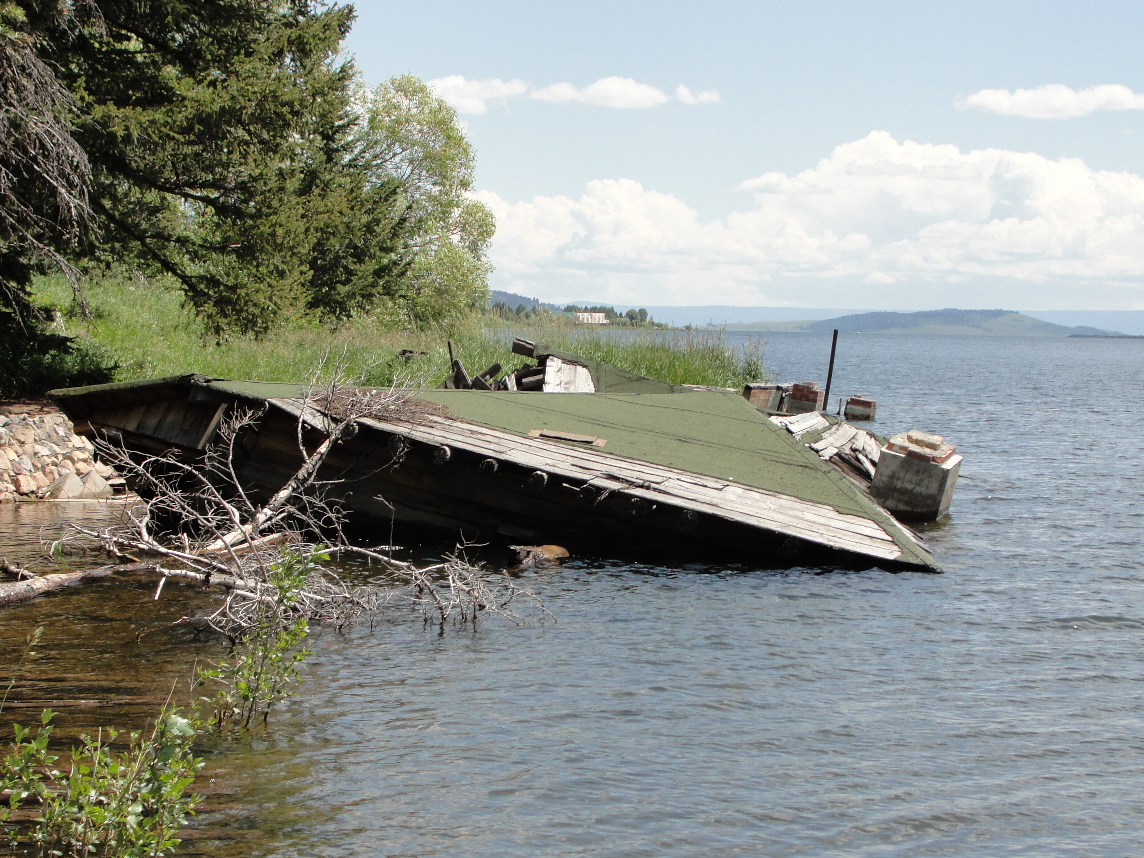 This is a photograph of a house that has been submerged under water following the earthquake of 1959.